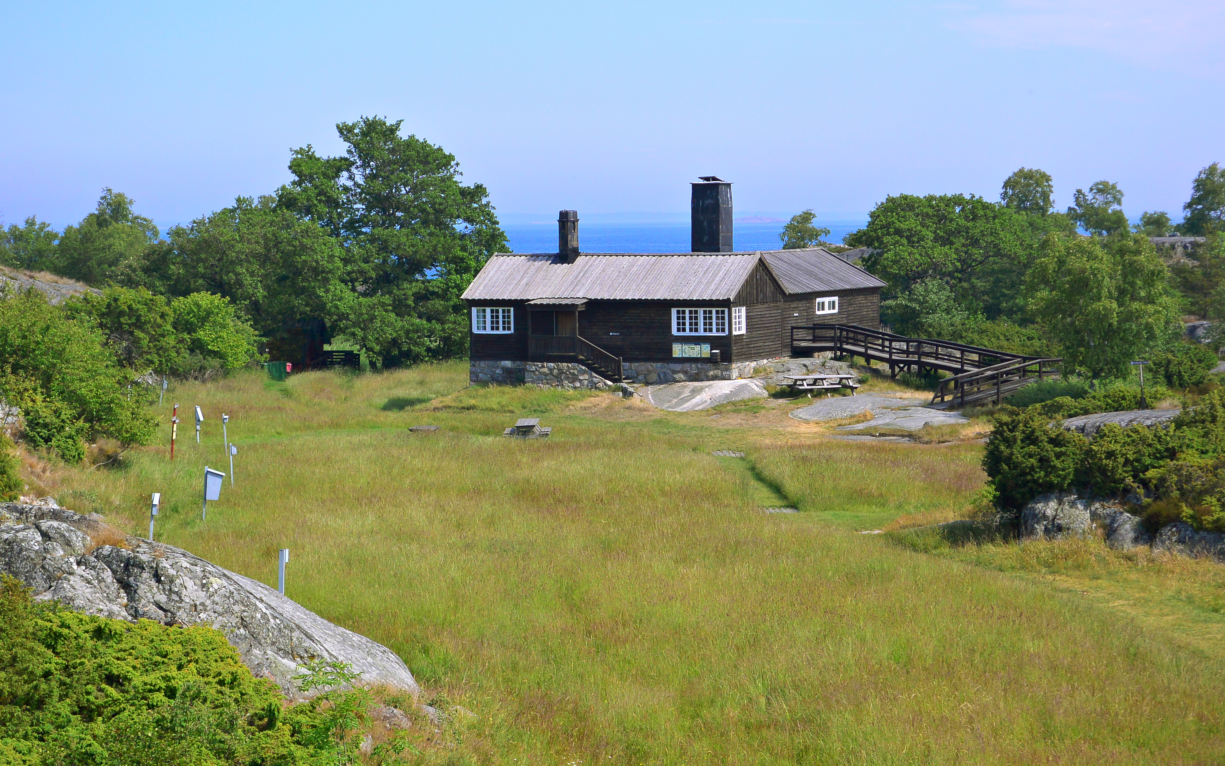 Bruno Liljefors country-house at Bullerön, Stockholm archipelago.